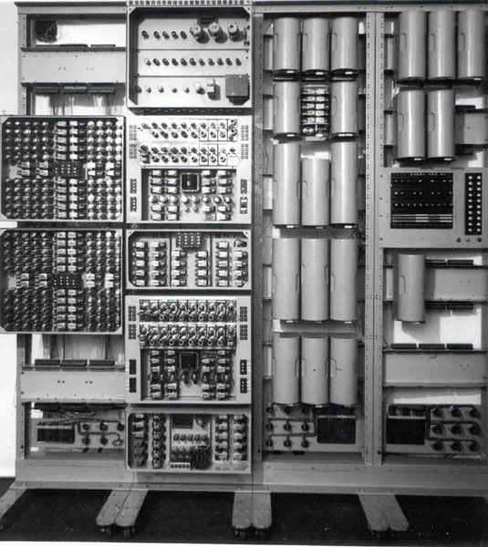 Harwell Dekatron Computer - early UK relay computer